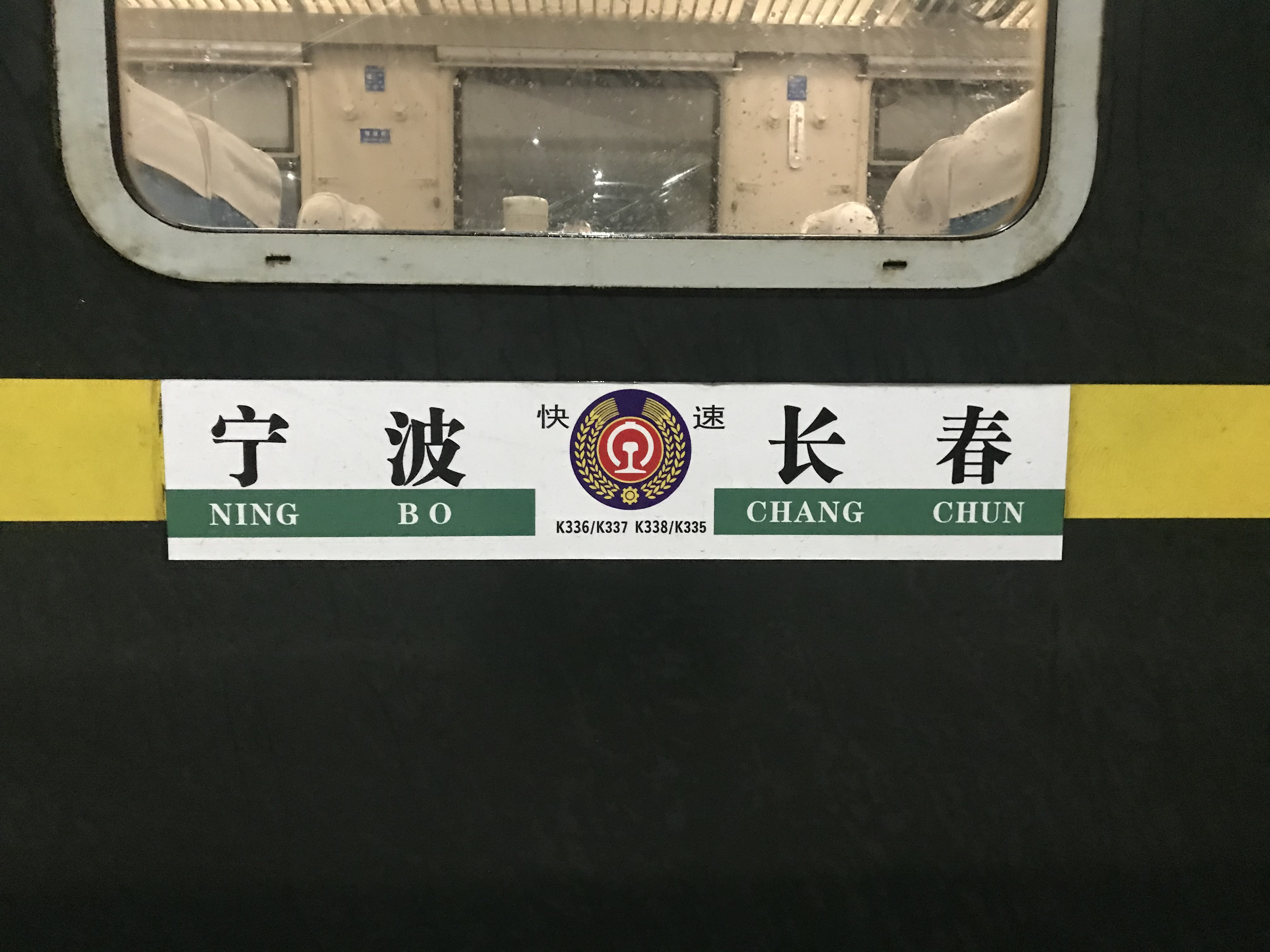 K335-336-337-338 from Changchun to Ningbo